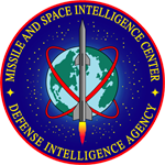 MSIC Logo PNG.